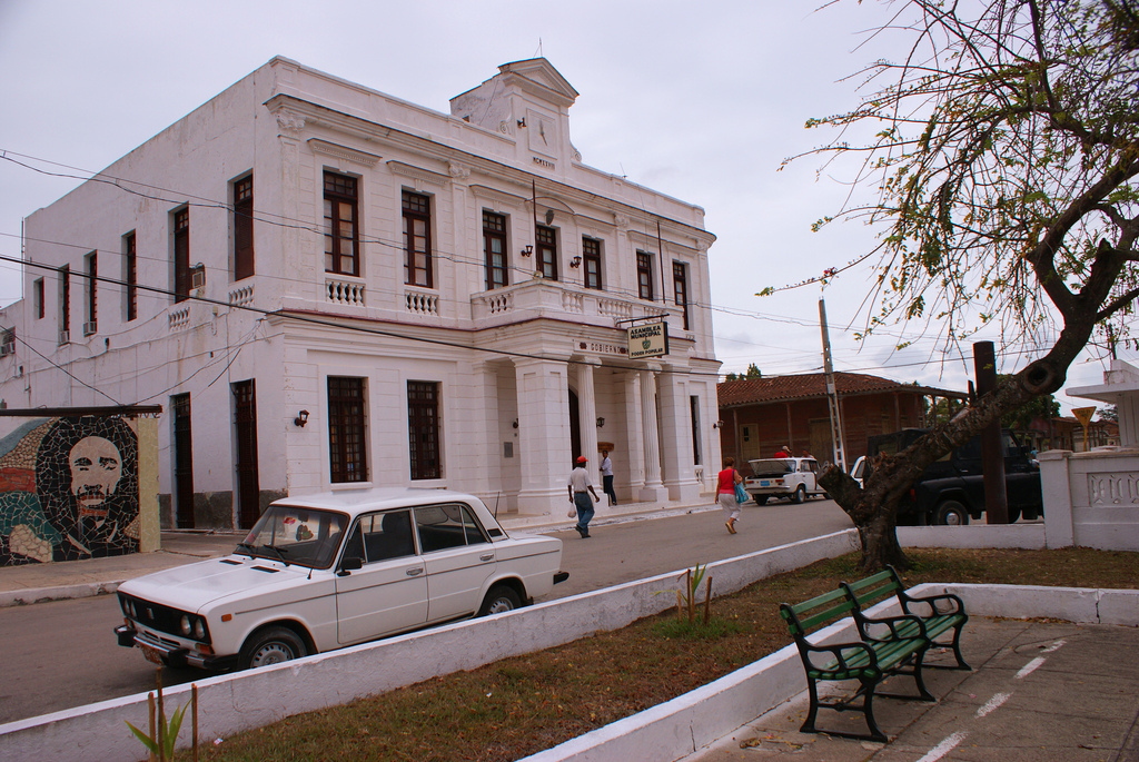 City Hall of Yaguajay — view from the central plaza in Yaguajay, Sancti Spíritus Province.